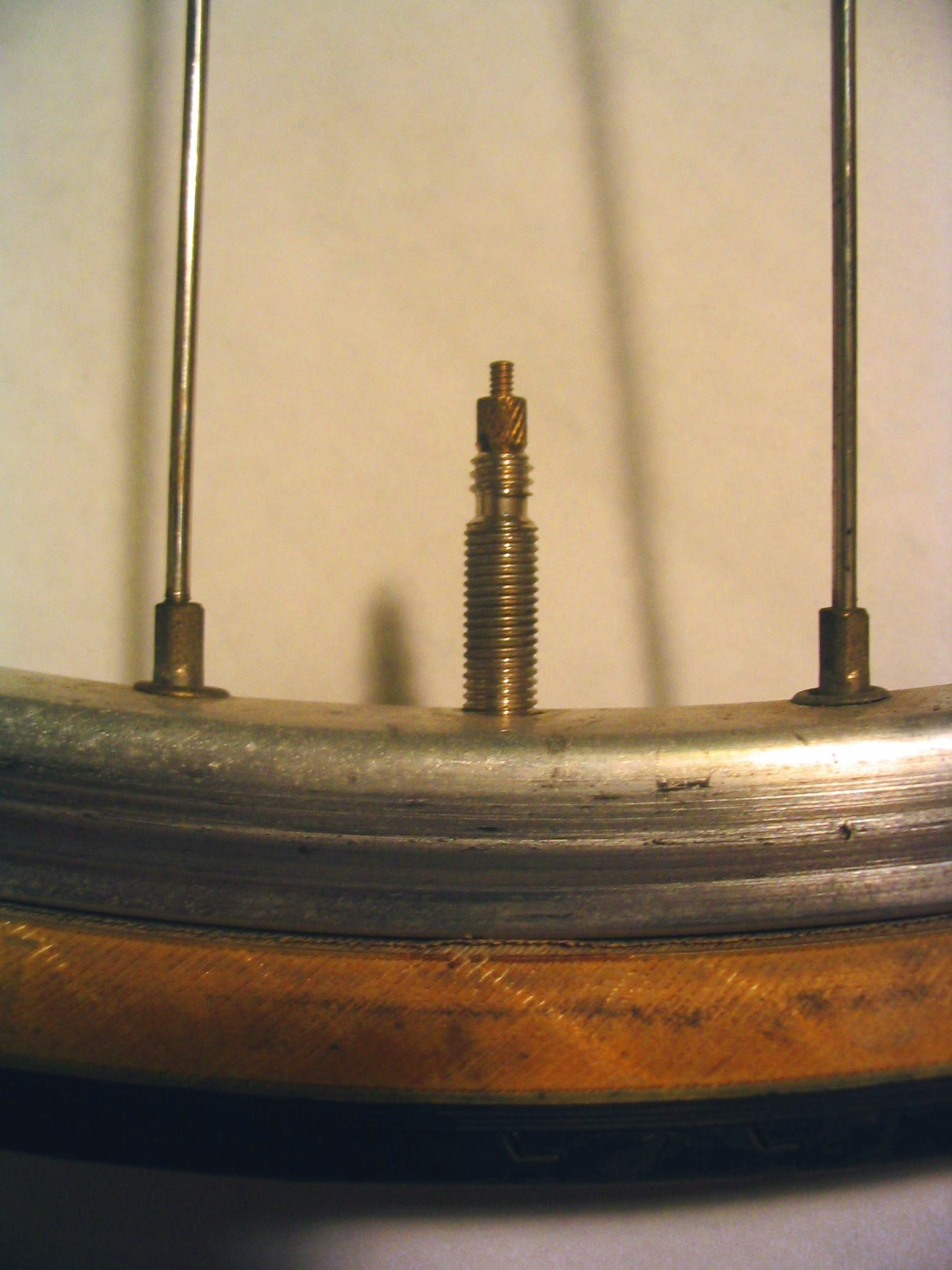 Presta valve, shown in context of bicycle wheel rim, tire, and spokes. Photo taken by User:Aezram on October 30, 2005.